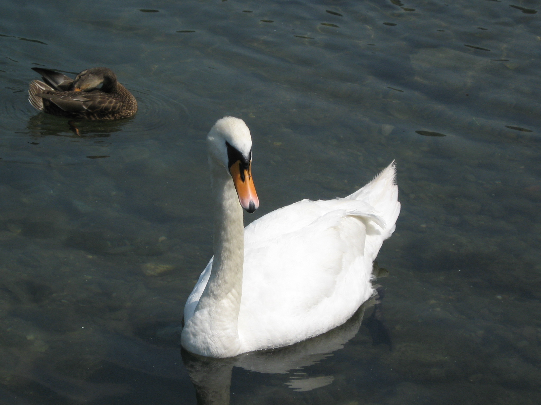 Swan and mallard. Typical fauna of the Traghetto di Leonardo in Imbersago, Italy